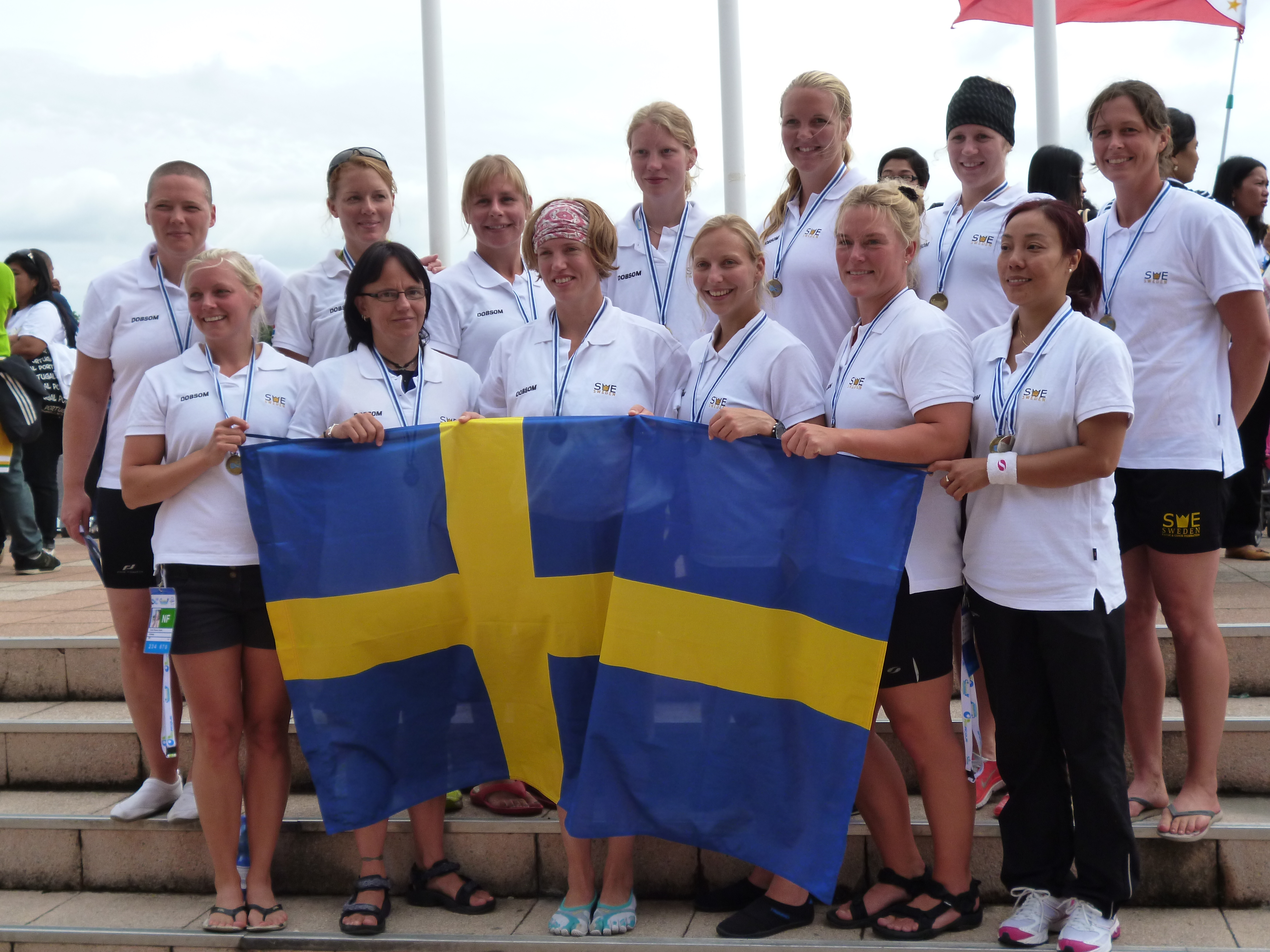 (ICF World Dragon Boat Racing Championships 2012 in Milan. Sweden team photo after winning a bronze in the senior women small boat 2000 meter.)